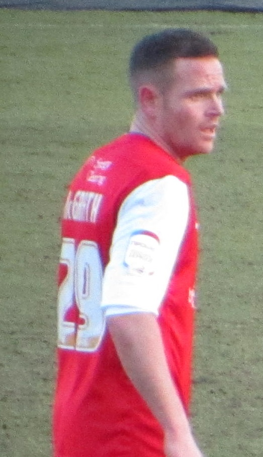 John McGrath.